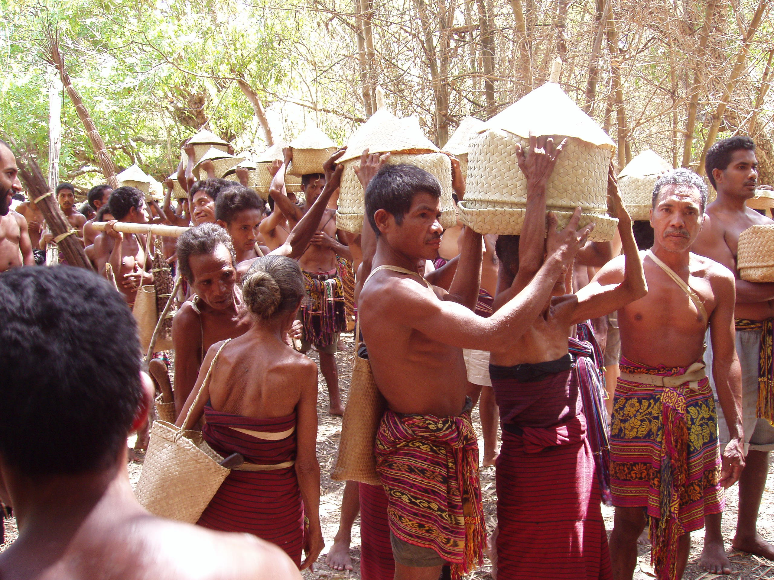 Baha Liurai. Preparation at the bottom of the hill. The offering on top of their head represents each clan in our village. They lined up according to hierarchy established long time ago.